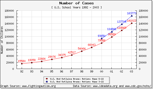 Chart showing the increase in autism diagnosis, with statistics based on data from the National Center for Health Statistics.